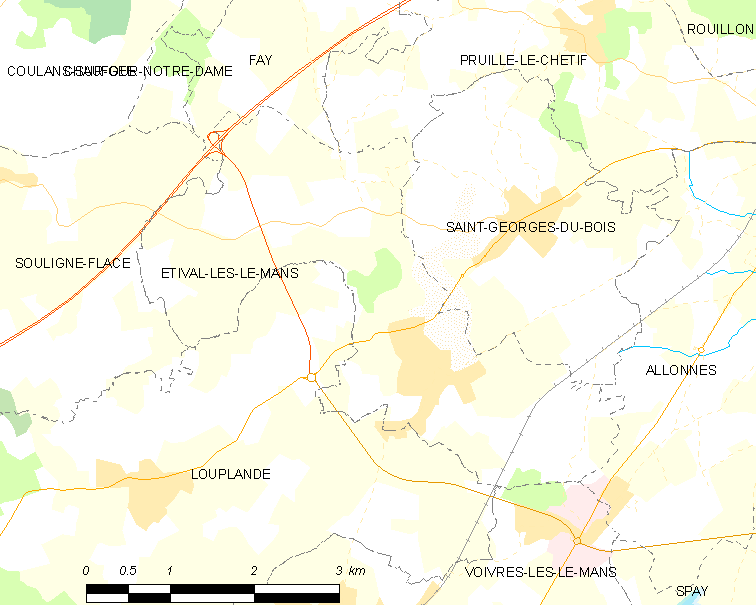 Map of French municipality